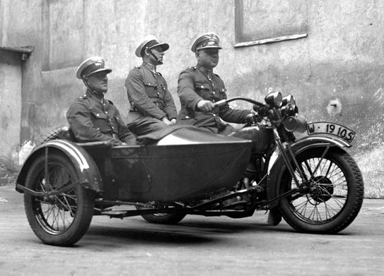 Polish police patrol in Warsaw 1932.